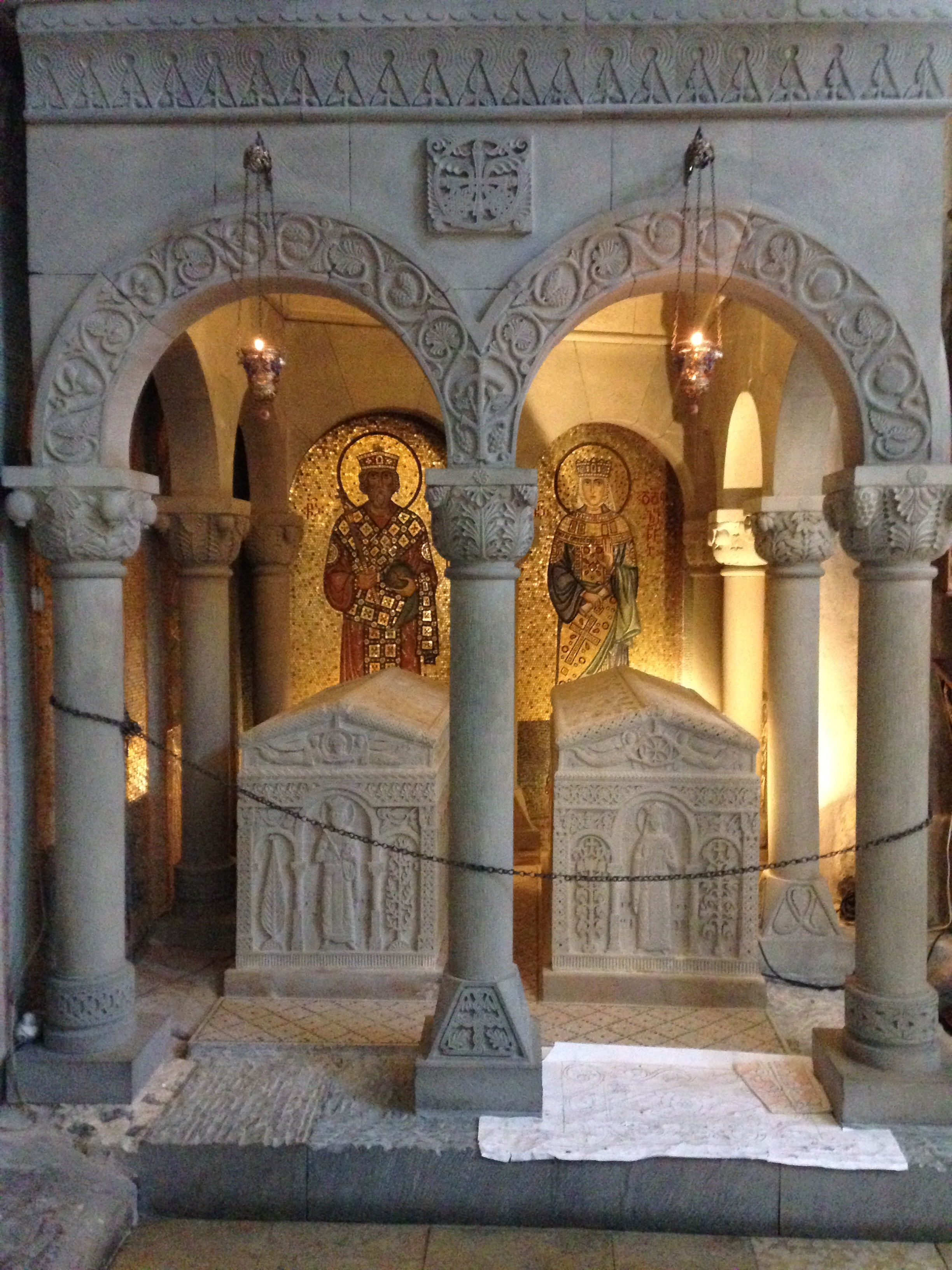 Mtshketa, Jvari monastery, Uplistsikhe, and Gori